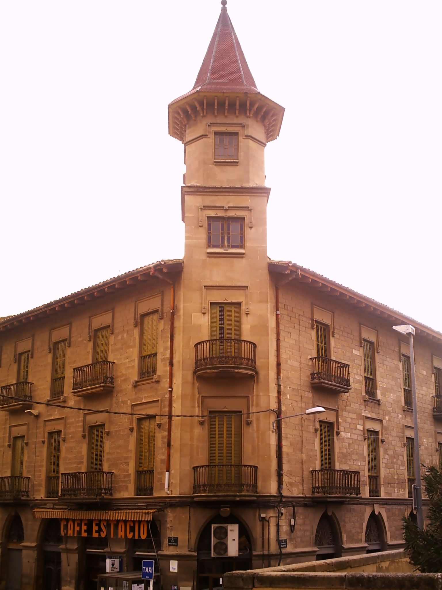 Maimó house, designed by the great architect Domènech i Montaner